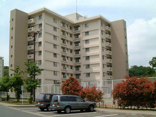 A family housing for U.S. military families in Ikego, Zushi, Kanagawa, Japan